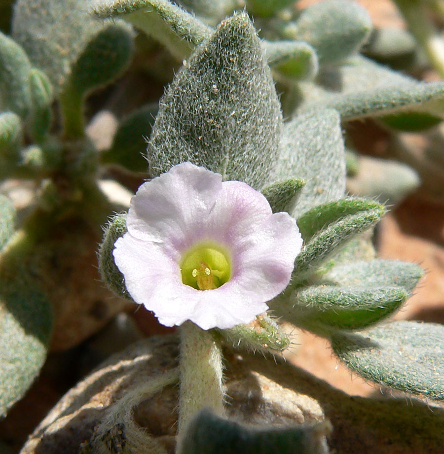 Tiquilia canescens var. canescens in Calico Basin, Red Rock Canyon, southern Nevada